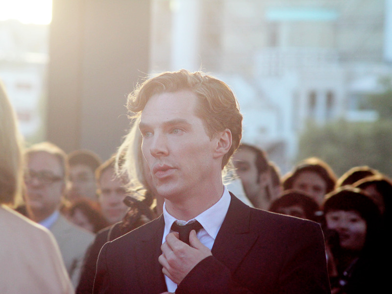 Benedict Cumberbatch at the London premiere of Tinker Tailor Soldier Spy. BFI South Bank, Tuesday 13th September 2011